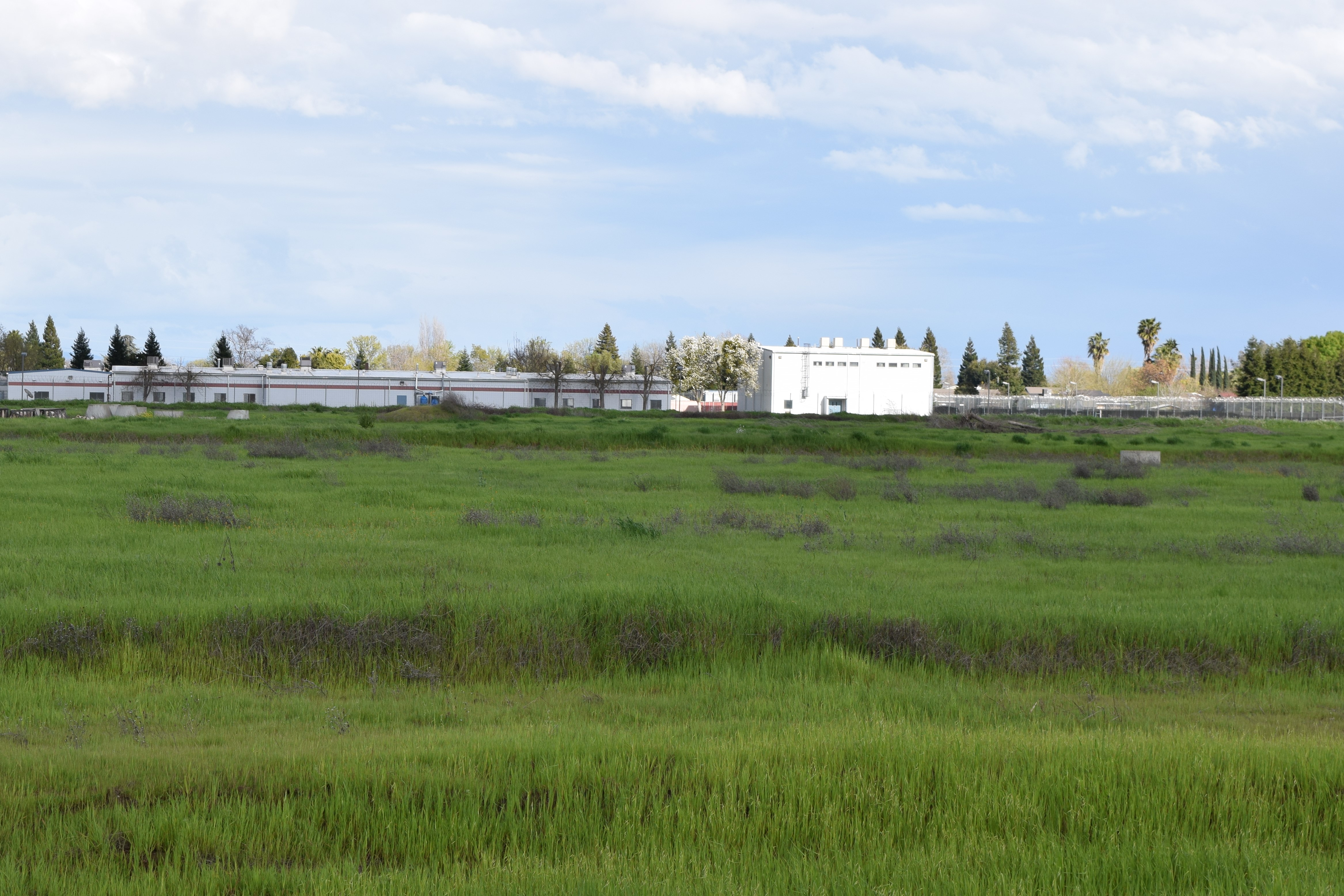 Long-vacant, minimum security, former women's prison in Live Oak, Sutter County, California